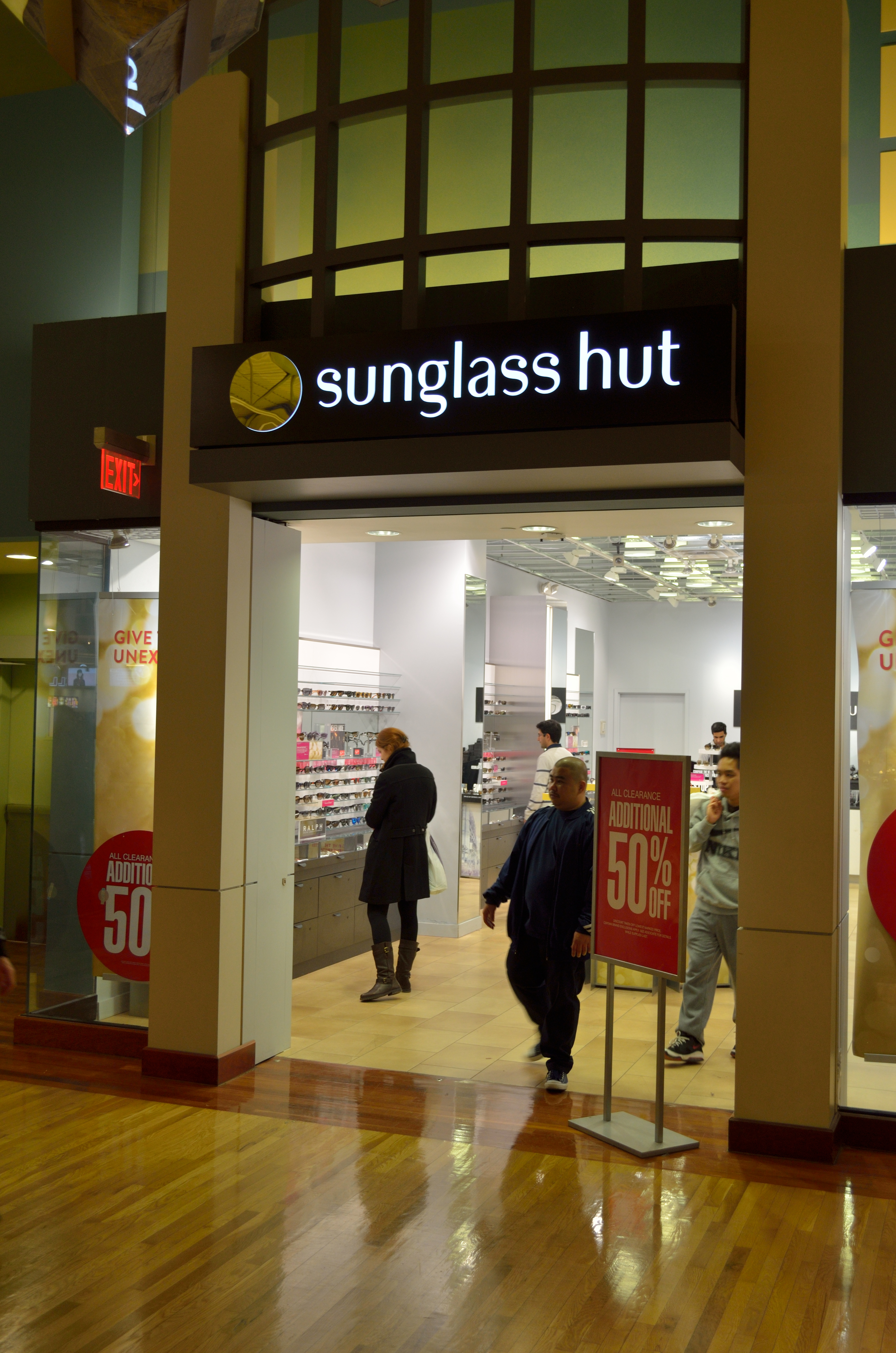 Sunglass Hut at Vaughan Mills - stronger DLighting version of File:SunglassHutVaughanMills.jpg